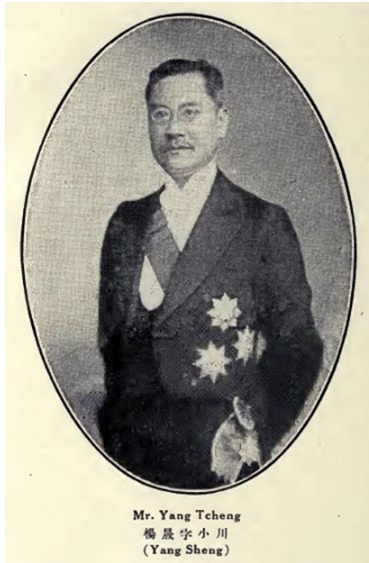 Yang Sheng (1867-?)